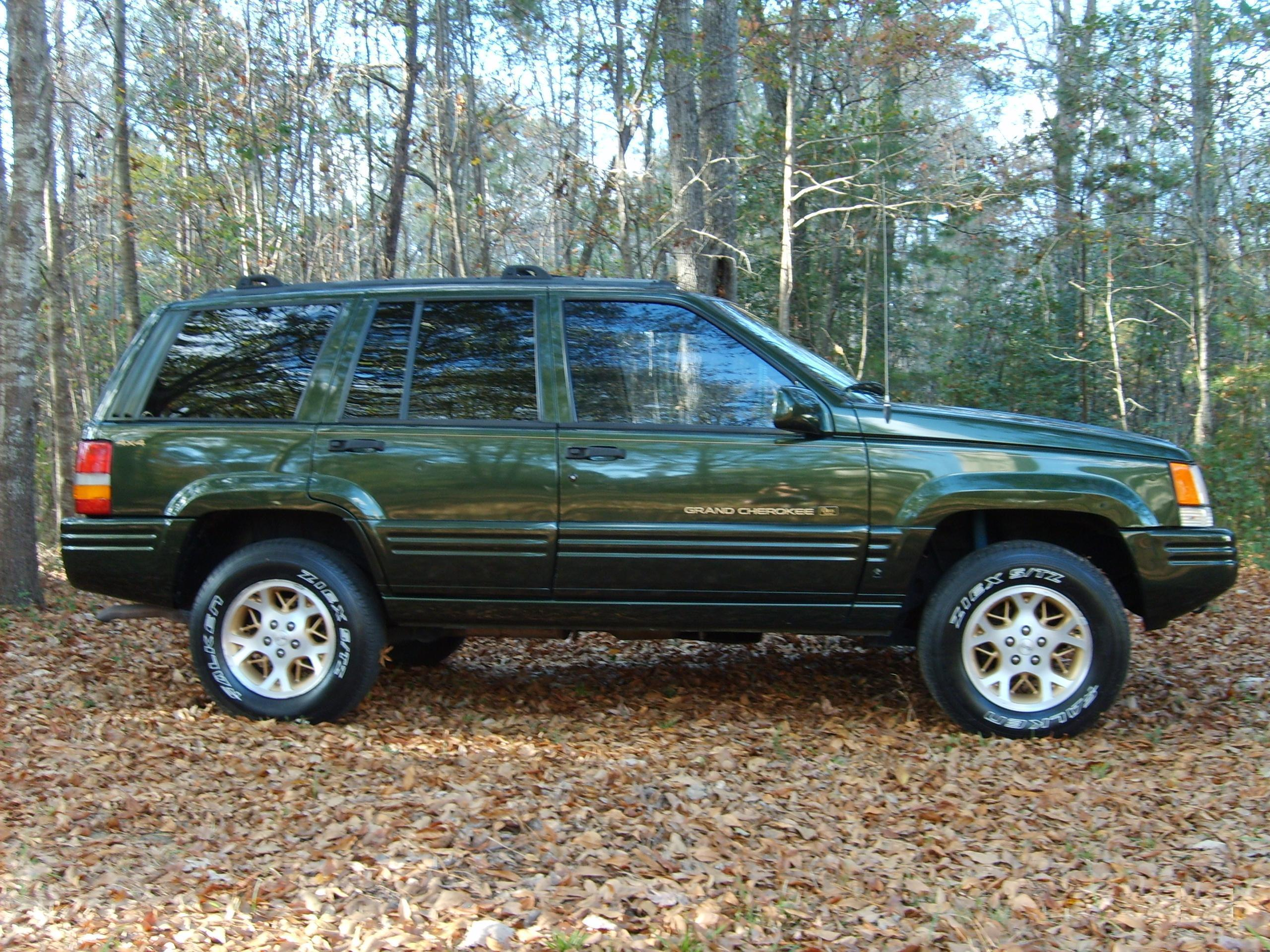 1996 Jeep Grand Cherokee Orvis